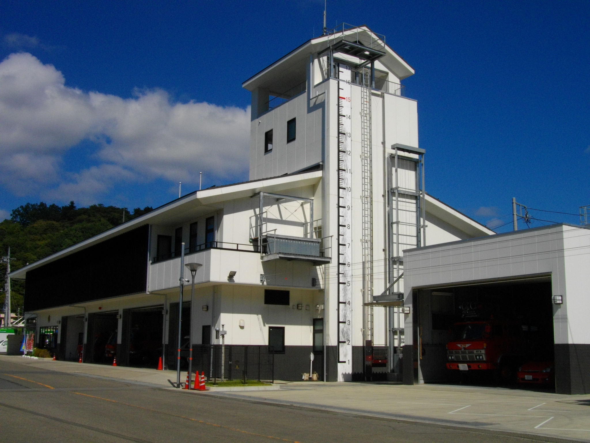 Tsuru City Fire Department